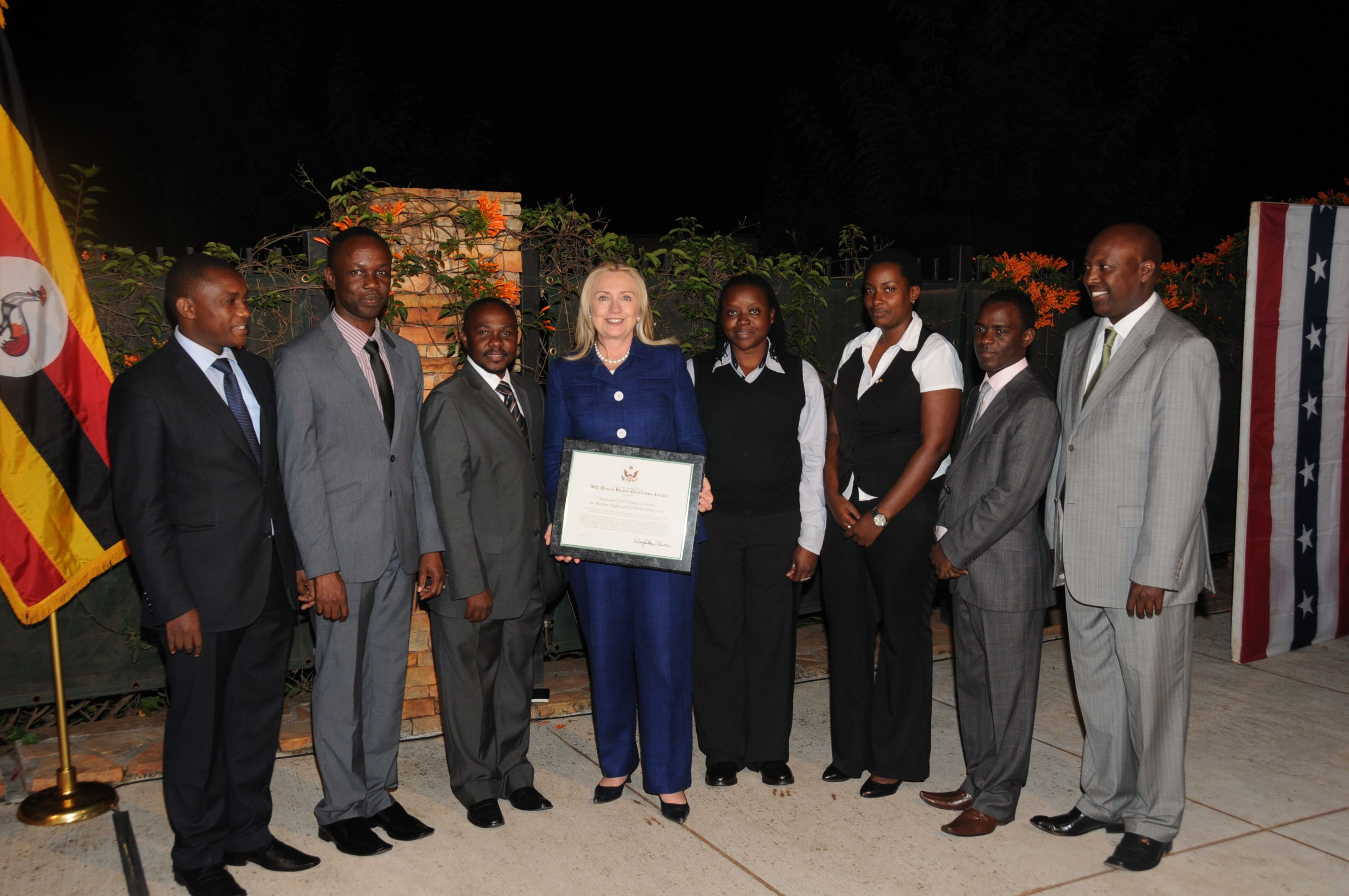 U.S. Secretary of State Hillary Rodham Clinton poses for a photo with recipients of the U.S. State Department’s 2011 Human Rights Defender Award including Adrian Jjuuko, Geoffrey Ogwaro, Julius Kaggwa, Joanita Warry Nambirige, Clare Byarugaba, Frank Mugisha, and Hassan Shire Sheikh in Kampala, Uganda on August 3, 2012. [State Department photo/ Public Domain]